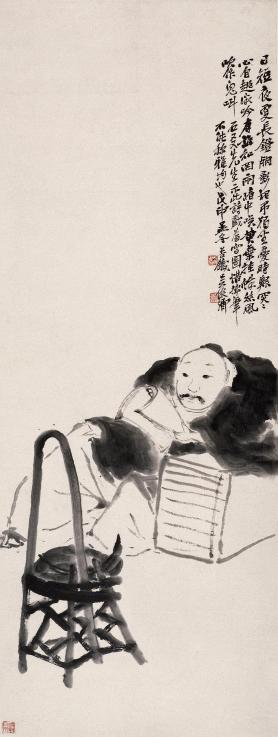 Reading in the Oil Lamp Light, Wu Changshuo. 1908,106×40cm,ink and brush